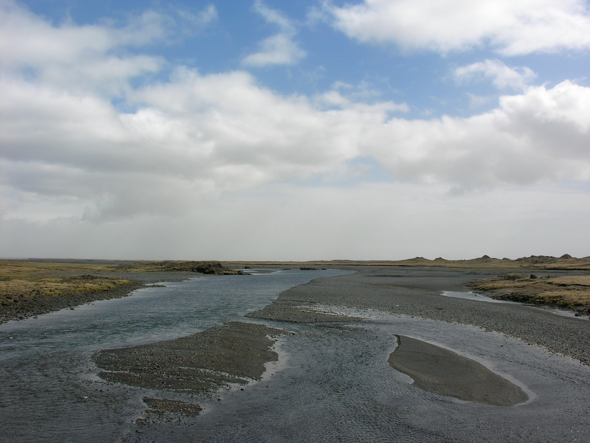 Iceland